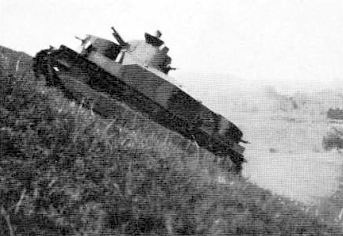 The Type 91 experimental heavy tank, climbing a hill during tests.